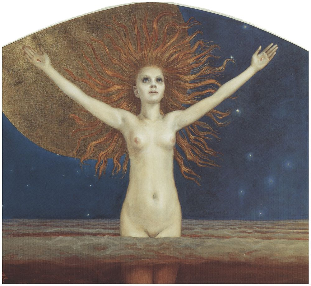 Ad astra